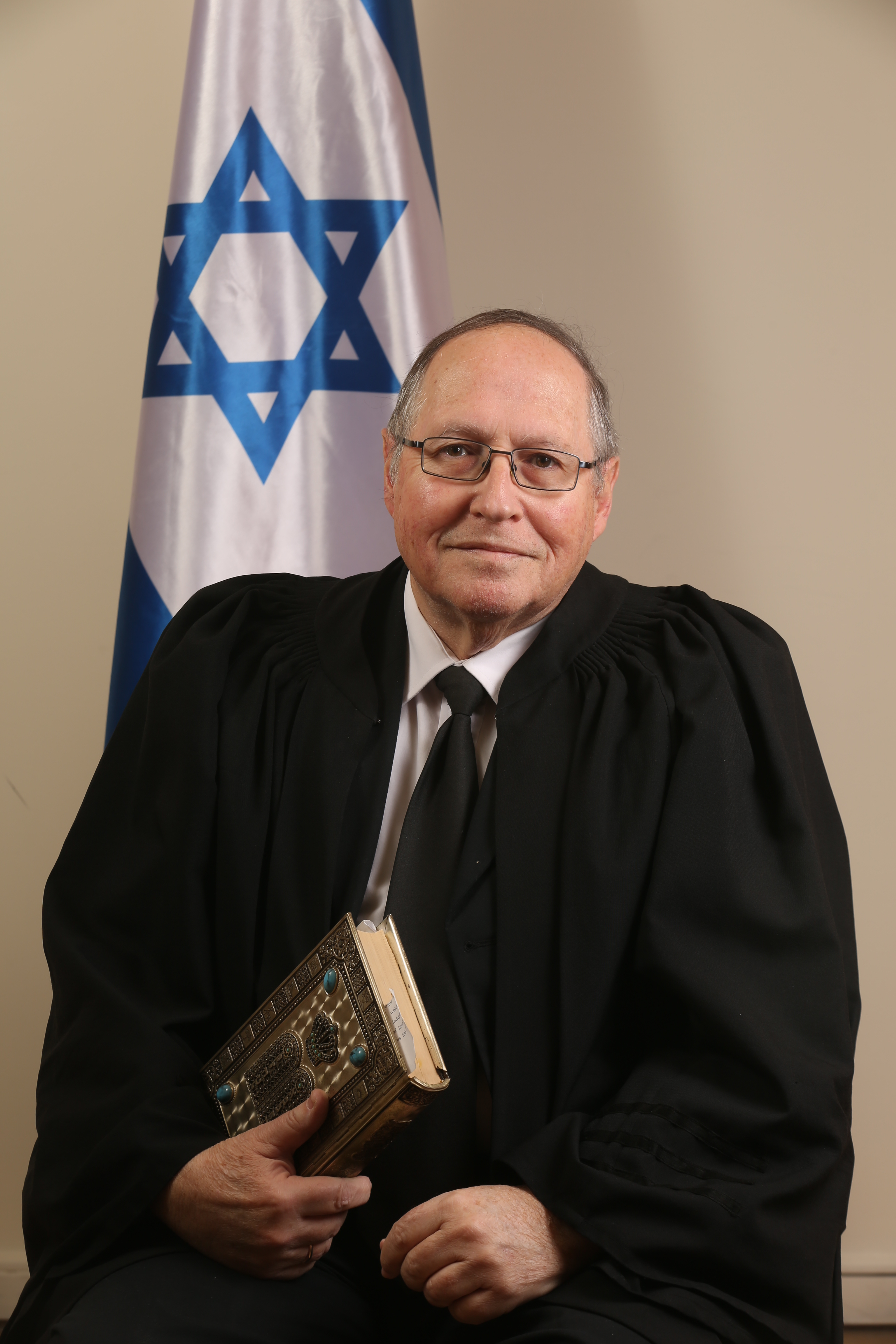 official portrait of high court judge Elyakim Rubinstein